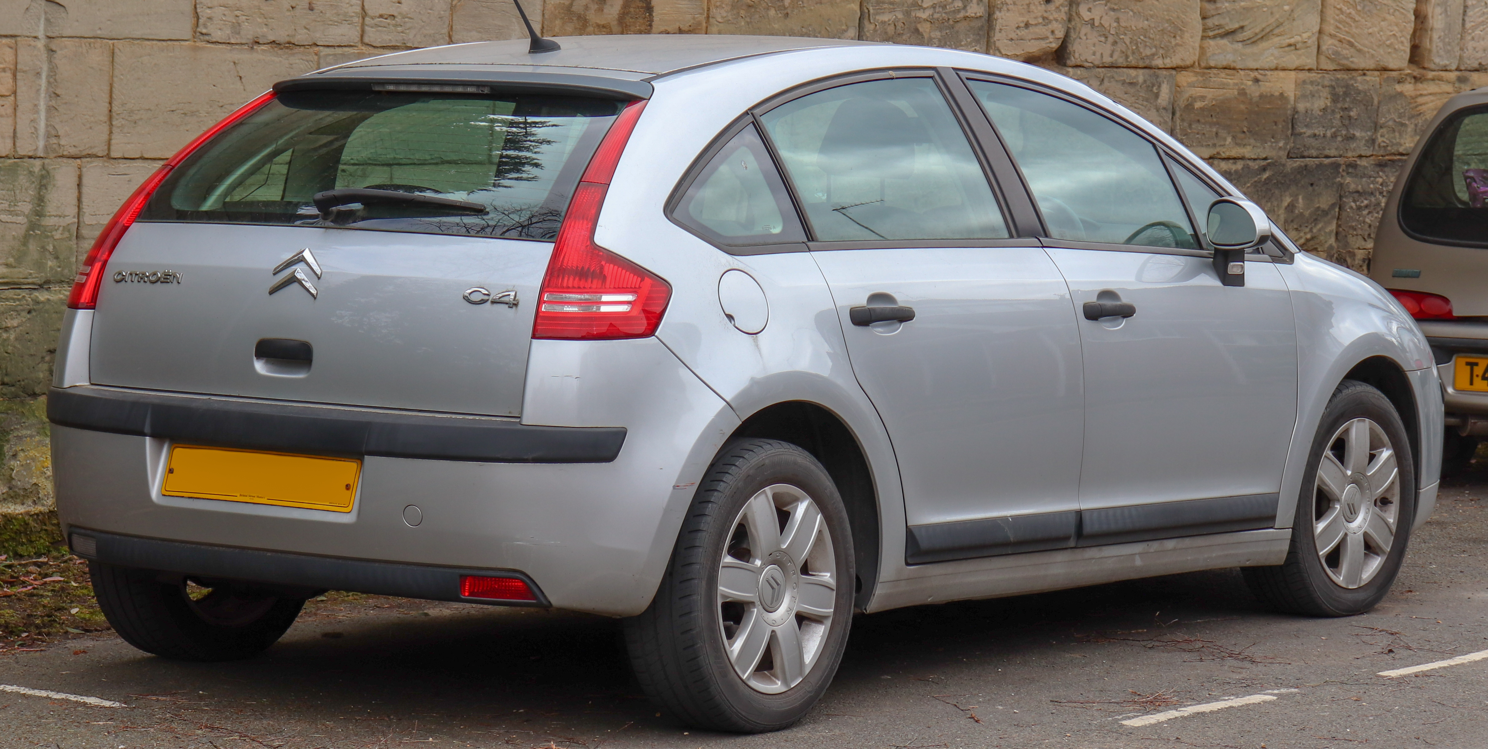 2006 Citroen C4 SX 1.6 Rear Taken in Warwick